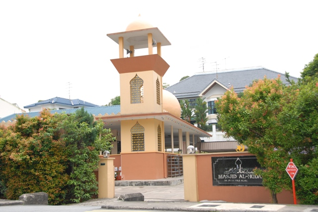 Masjid Al-Huda (Al-Huda Mosque) at 34 Jalan Haji Alias, Singapore.